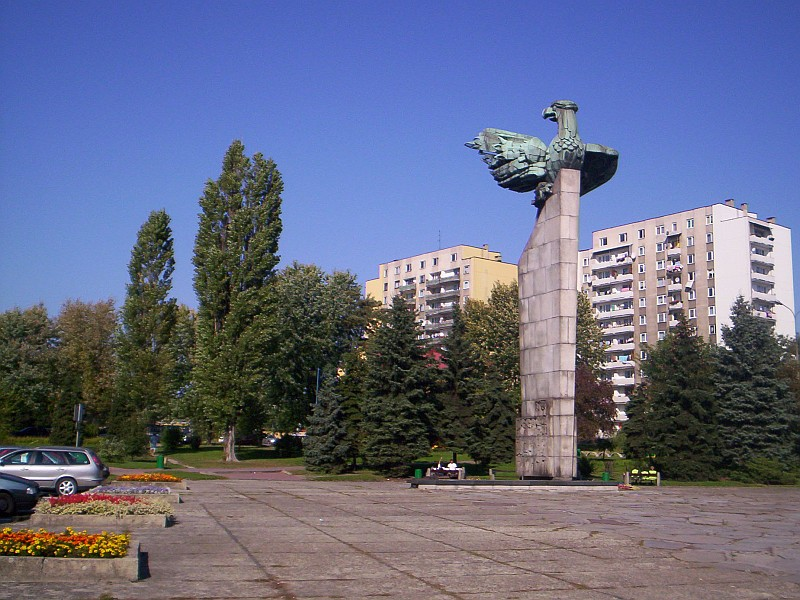 Plac Tysiaclecia (Millennium Square), Chrzanow, Poland.